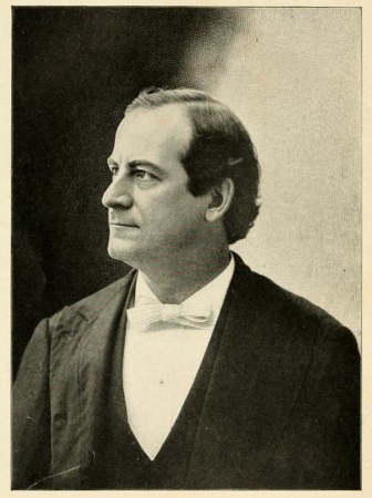 Image of William Jennings Bryan